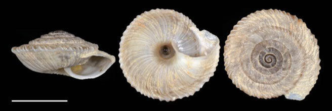 Composition of three views of the shell of Xeroplexa setubalensis. Locality: Serra da Arrábida, Setúbal (Portugal)